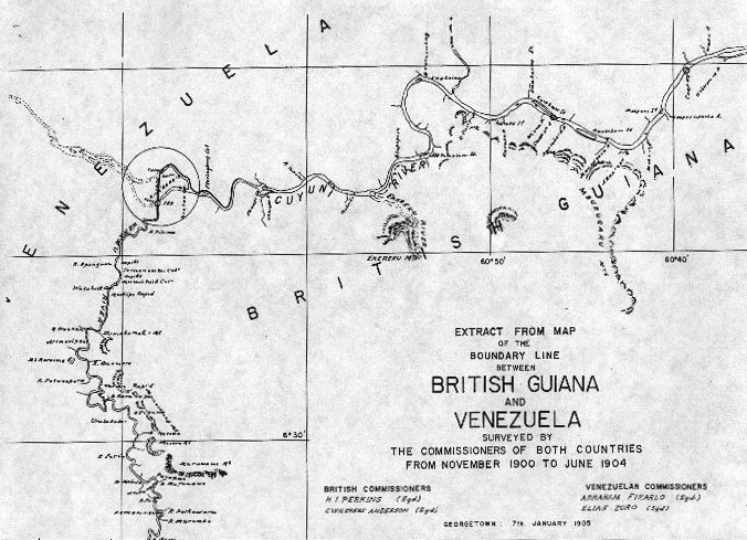 Map from the 1905 survey of the Venezuela-British Guiana boundary.